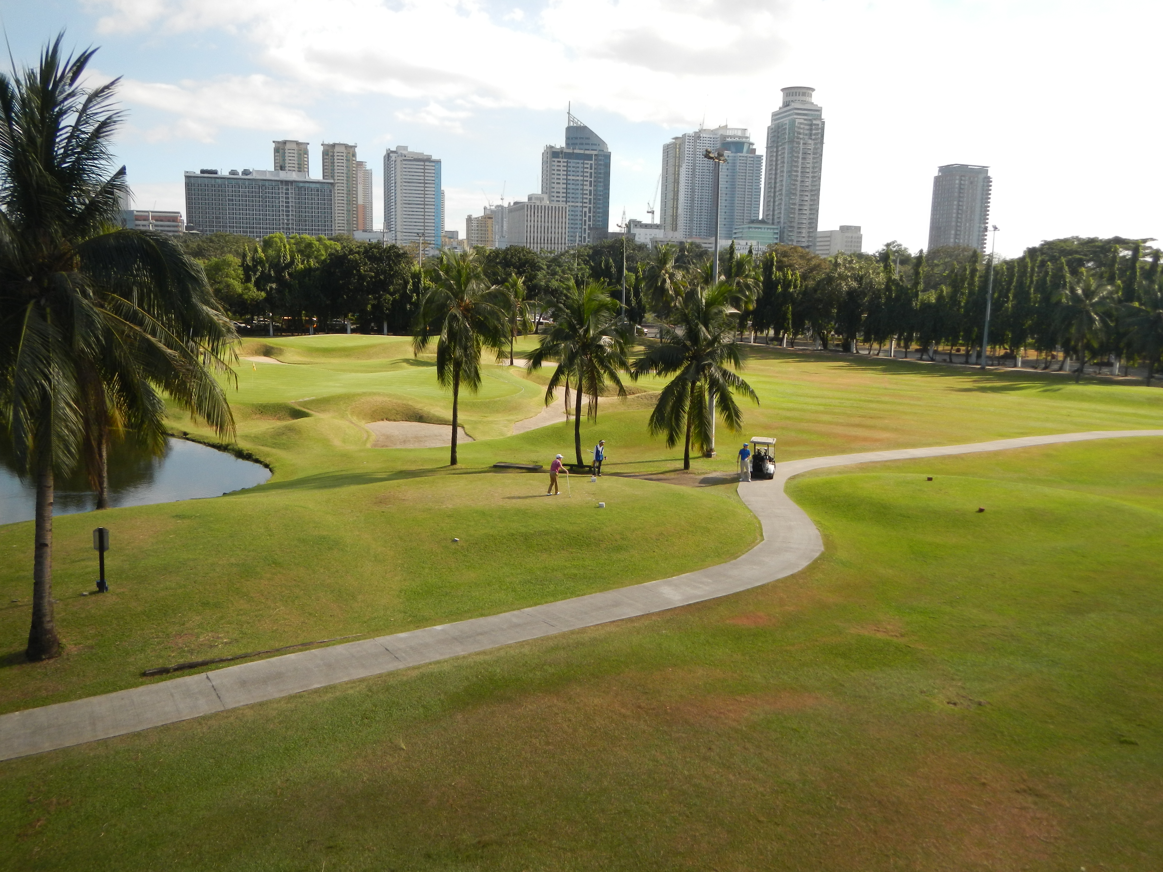 Upload Wizard photos of - the - a) Baluarte de Dilao or San Lorenzo, San Francisco, San Fernando de Dilao, or Dilao built in late 18th century restored since 1983, named after Spanish king Saint Ferdinand III of Castile [1] - Intramuros, Intramuros Golf Club, Intramuros City Walls - Gates of Intramuros [2] Intramuros entrance on Gen. Luna Street, the Bastion of San Diego constructed in 1644, the defensive walls of Intramuros and Muralla Street - Gate facing the south Puerta Real Gardens the original Real Gate (Royal Gate) was built in 1663 at the end of Calle Real de Palacio now General Luna St. and was used exclusively by the Governor-General for state occasions was located west of Baluarte de San Andres and faced the old village of Bagumbayan b) Department of Labor and Employment (Philippines) [3] DOLE Building, Muralla corner General Luna Streets, Intramuros, Manila[4] under Rosalinda Baldoz, Secretary [5] [6] was founded on December 8, 1933 via the Act No. 4121 by the Philippine Legislature. It was renamed as Ministry of Labor and Employment in 1980. The agency was renamed as a Department after the 1986 EDSA Revolution in 1986 Secretary of Labor and Employment (Philippines)[7] Fernanda Salcedo Balboa b. October 8, 1902 - d. May 24, 1999, marker, a social worker and one of the most civic-minded women of the Philippines, [8] was the Founder of the Reapers' Club in Tayug, Pangasinan. beside it is the Manila Bulletin[9] List of Cultural Properties of the Philippines in Metro Manila [10] List of historical markers in the Philippines[11]